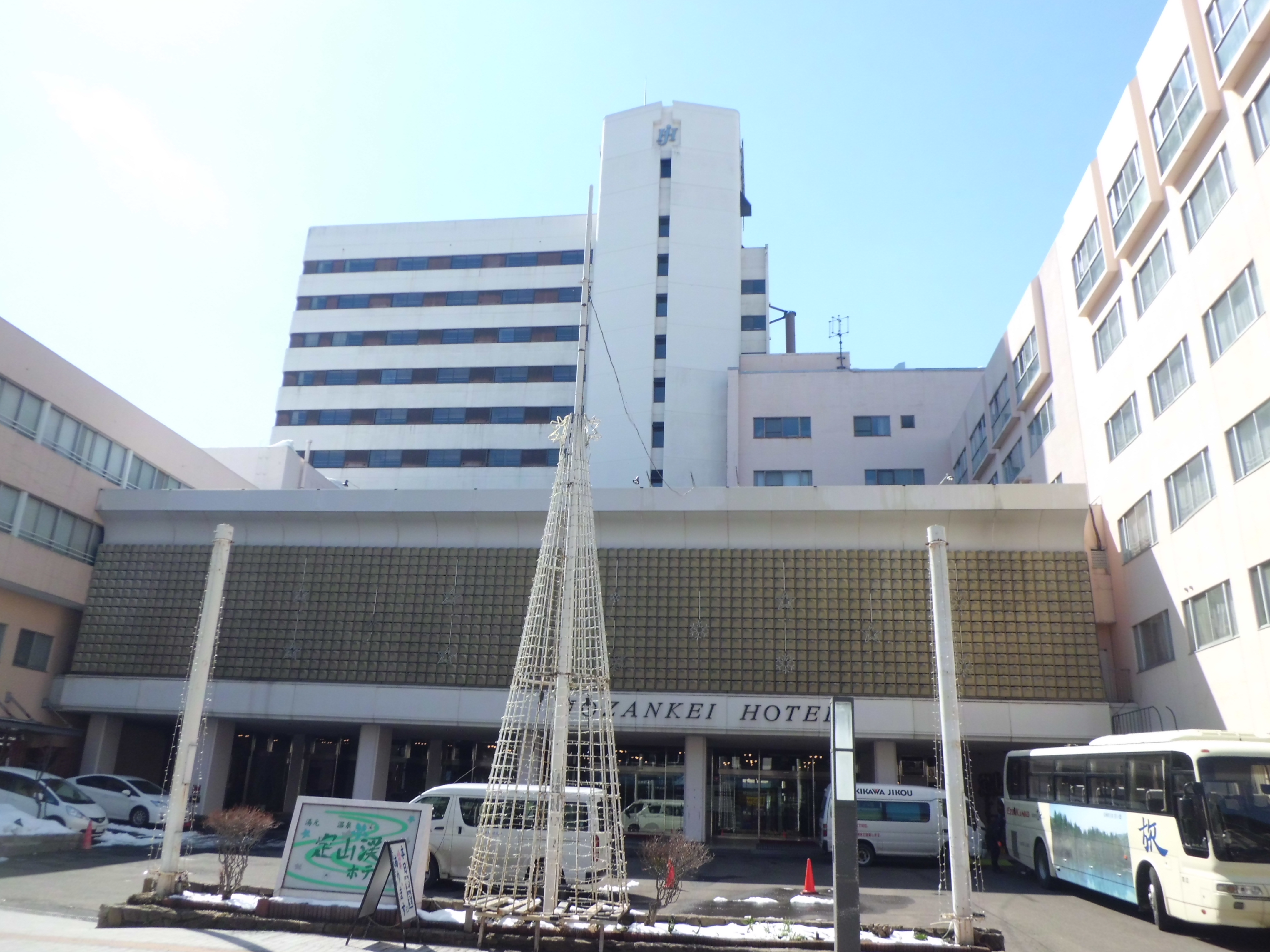 Jozankei Hotel